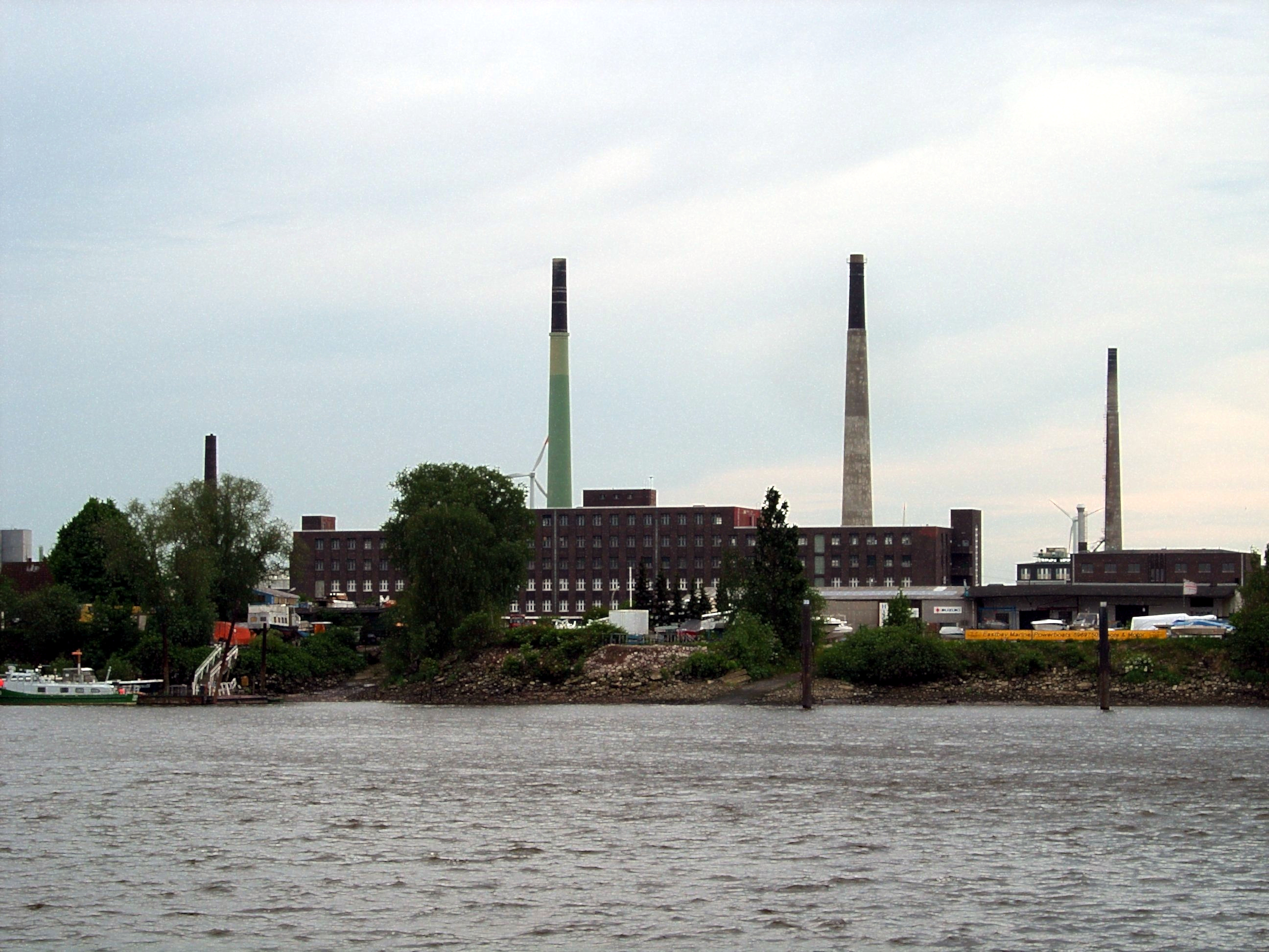 A Warehouse at Peute, in the background smokestacks of the Norddeutsche Affinerie (since 1. April 2009 Aurubis AG) in Hamburg-Veddel, Germany.